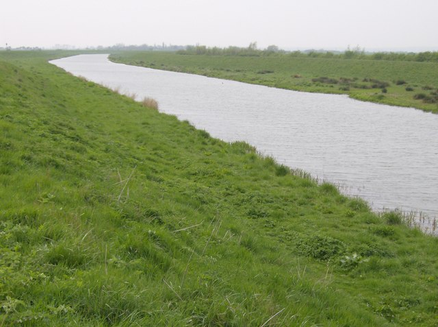 Remote River Glen The channelled River Glen runs between flood banks in a very remote stretch. Footpaths run along both sides; on the south side this is part of the Macmillan Way. Although it appears remote, the A151 runs parallel to the north, below and completely hidden by the northern bank of the river.